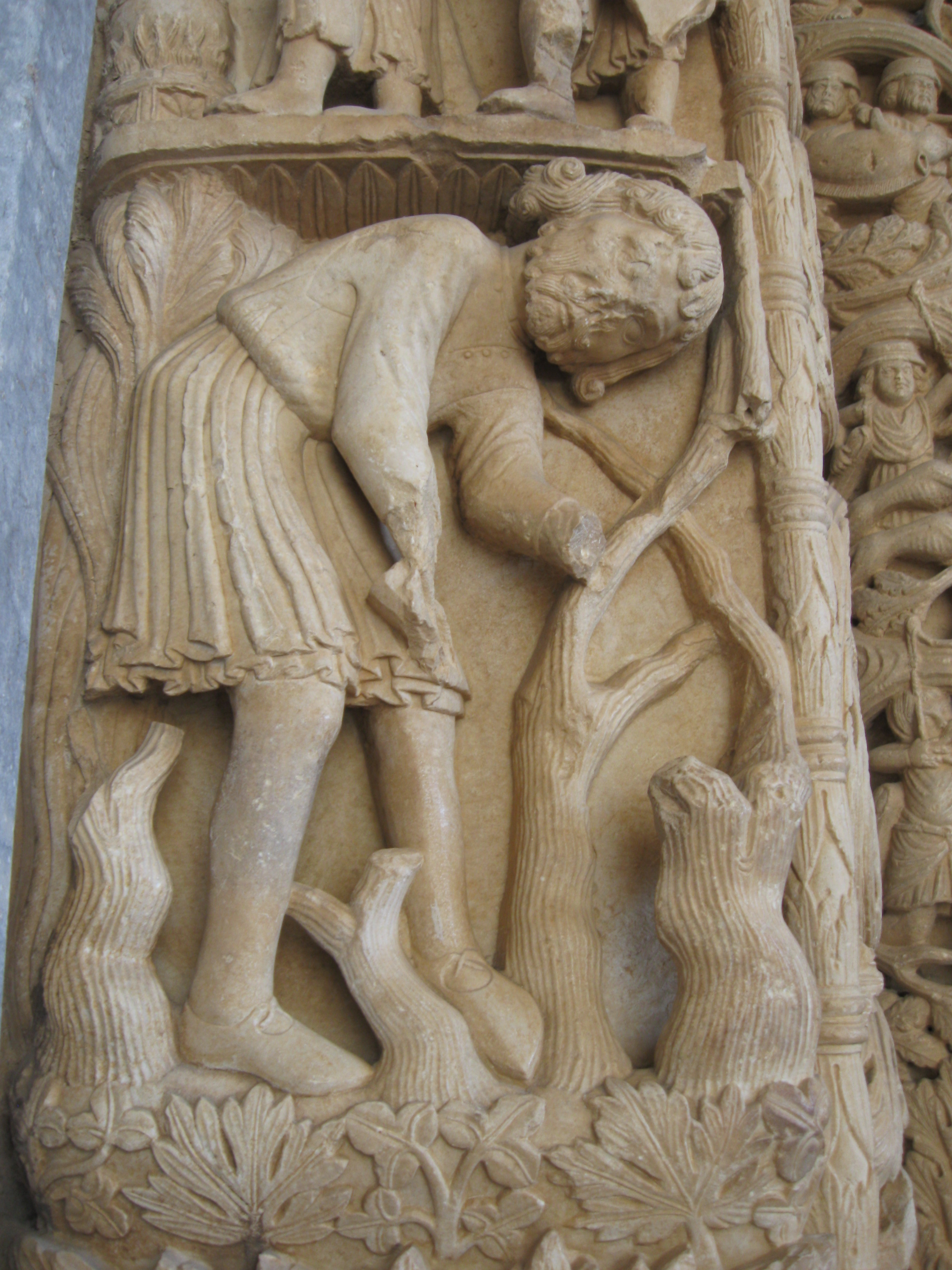 Detail of Radovan's Portal. The entrance to the Cathedral of St. Lawrence in Trogir